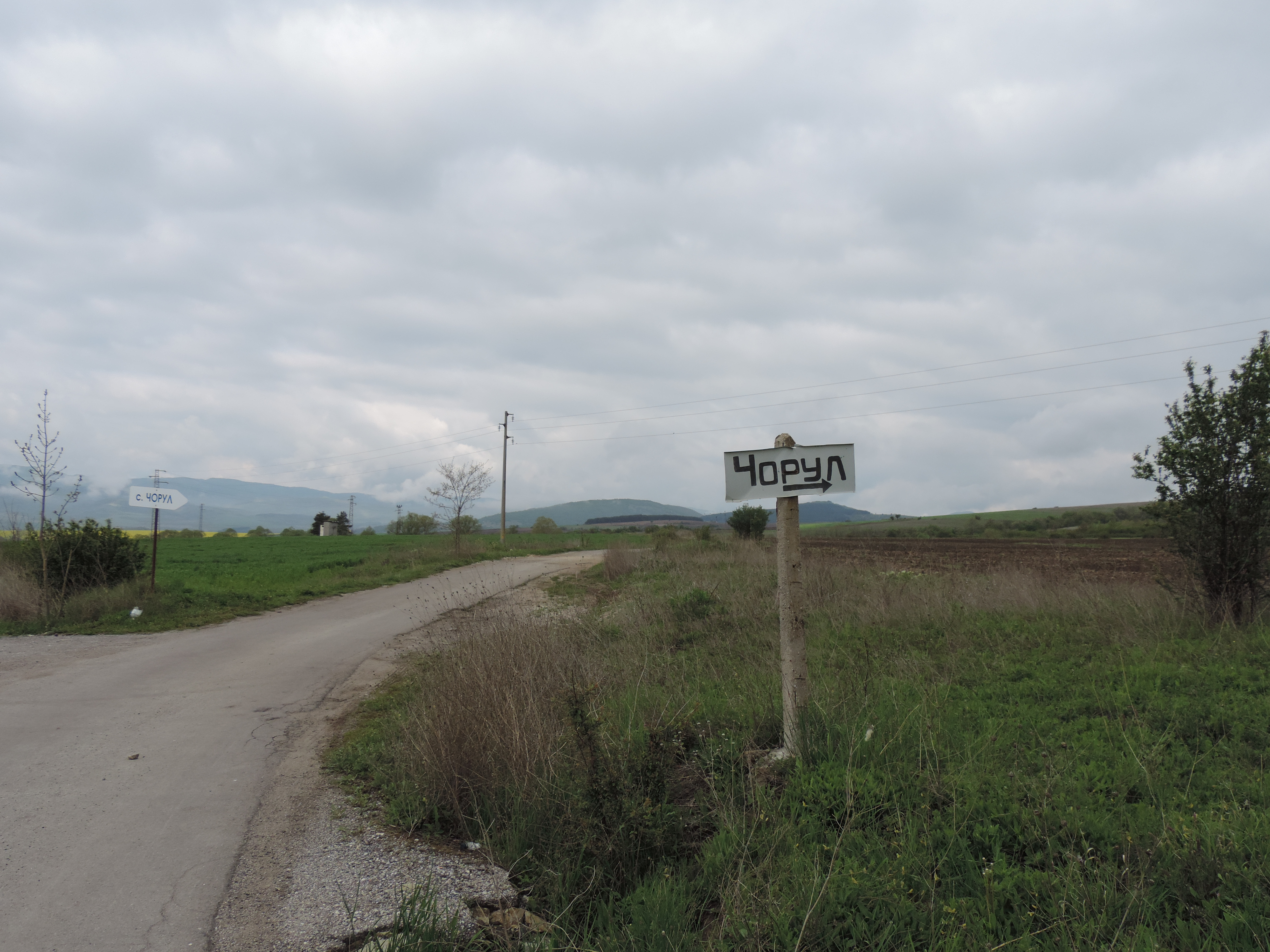 Road 813, Dragoman-Tran, Bulgaria.